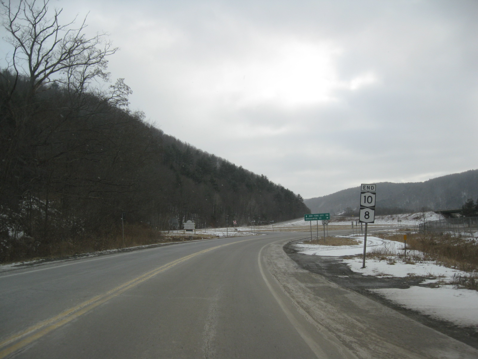 Southern terminus of New York State Route 8 and New York State Route 10 at New York State Route 17 in Deposit, New York.